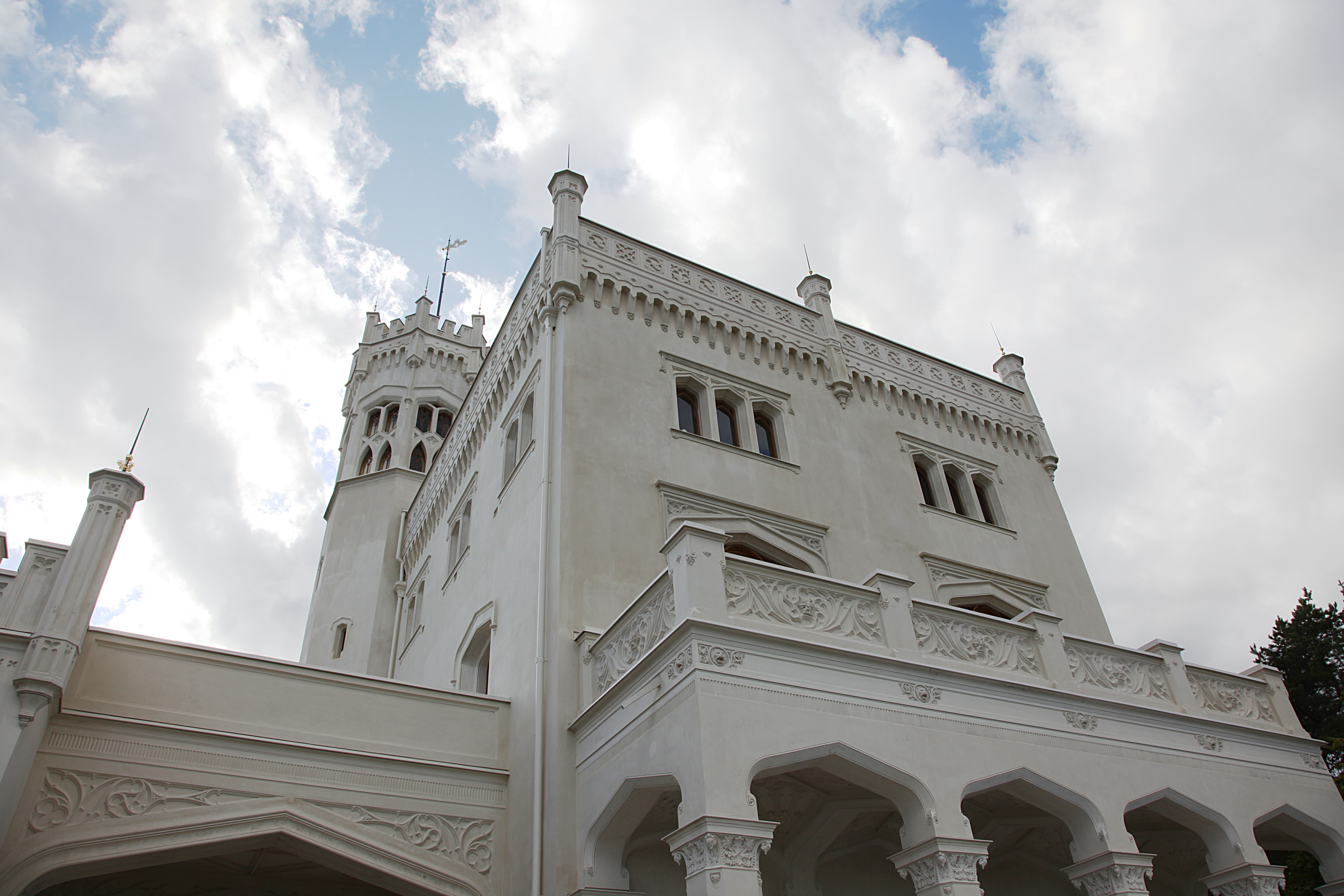 Oscarshall castle in Oslo. Newly restored using original white colour